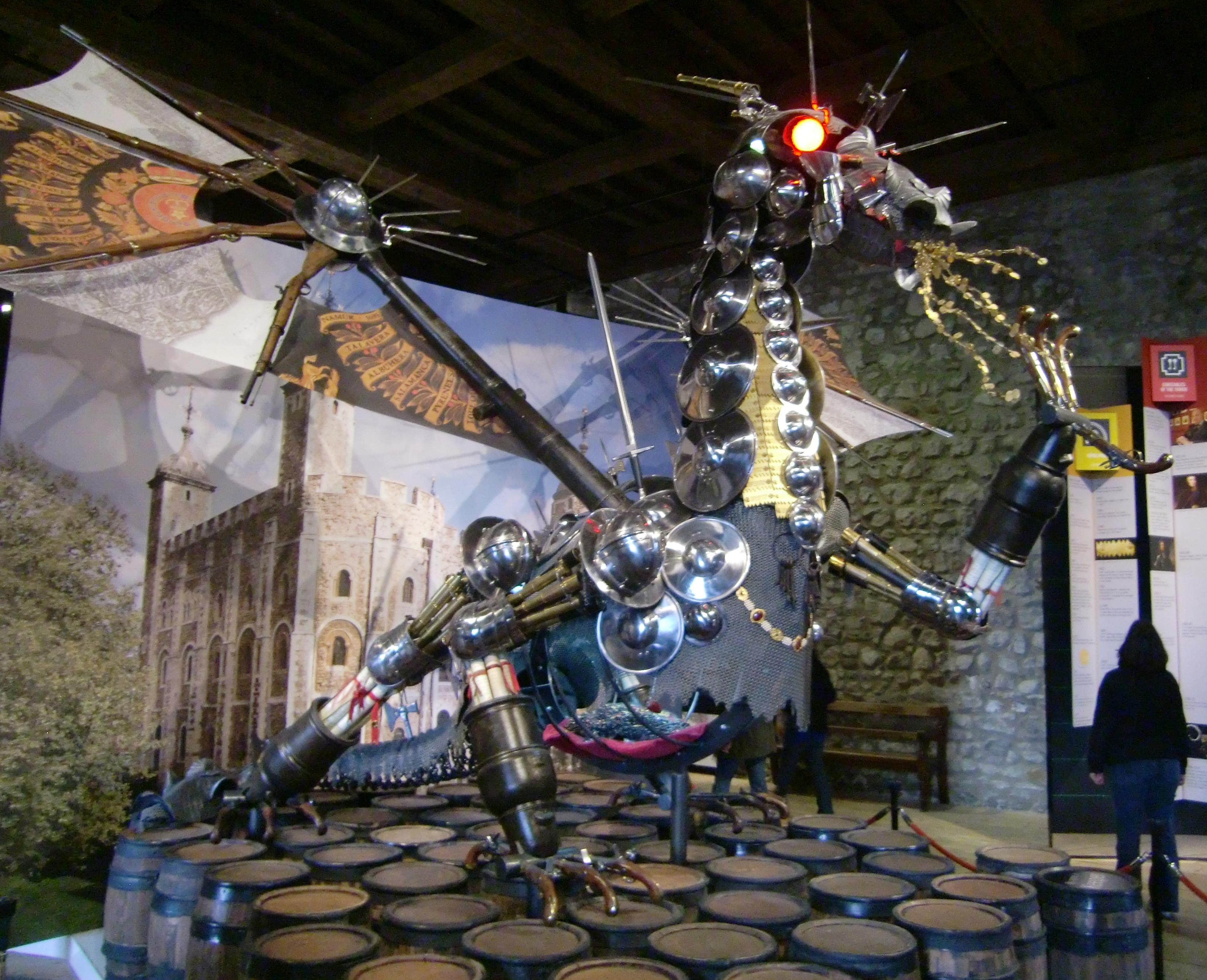 Dragon in Tower of London